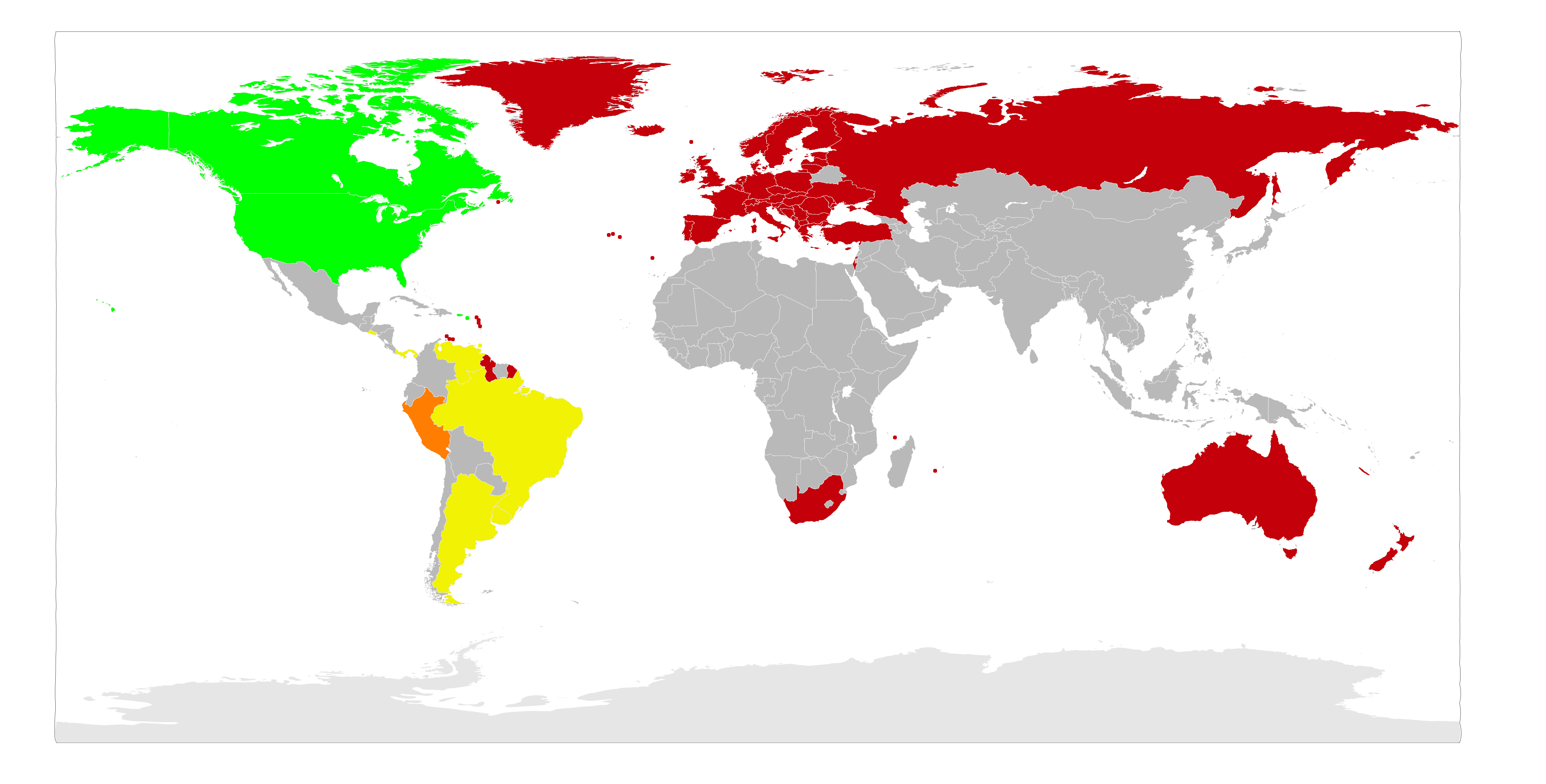 World Map of Amateur Radio Reciprocal Operation Agreements